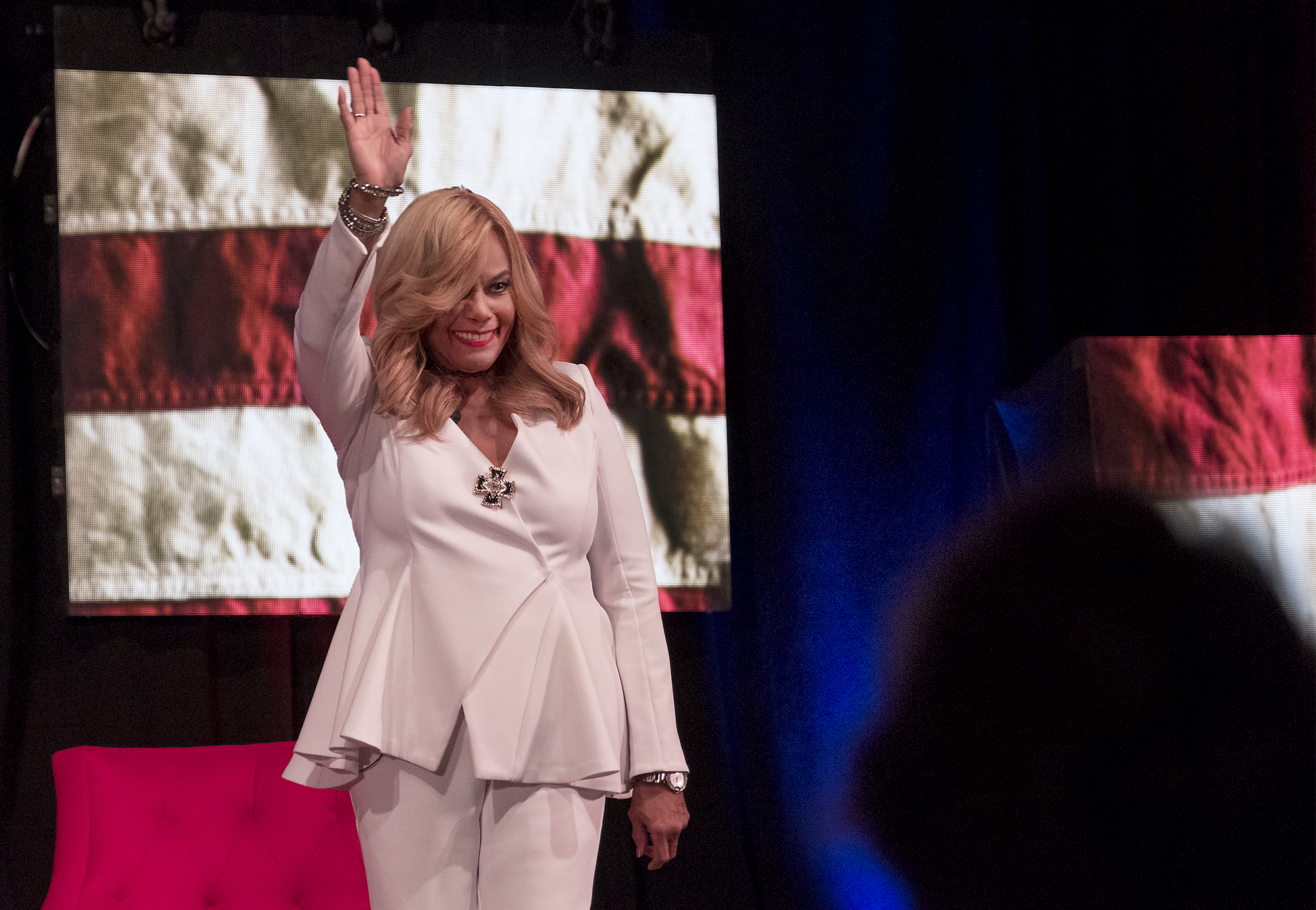 Some of Motown's biggest stars recall the beginnings of Motown 60 years ago as part of The Summit on Race in America at the LBJ Presidential Library on Wednesday, April 10, 2019. Duke Fakir, founding member of The Four Tops; Claudette Robinson, member of The Miracles; and Mary Wilson, founding member of The Supremes, discuss how Motown forever changed American music, business, and perceptions of African-Americans. Moderating the panel is Bob Santelli, founding executive director of the GRAMMY Museum.